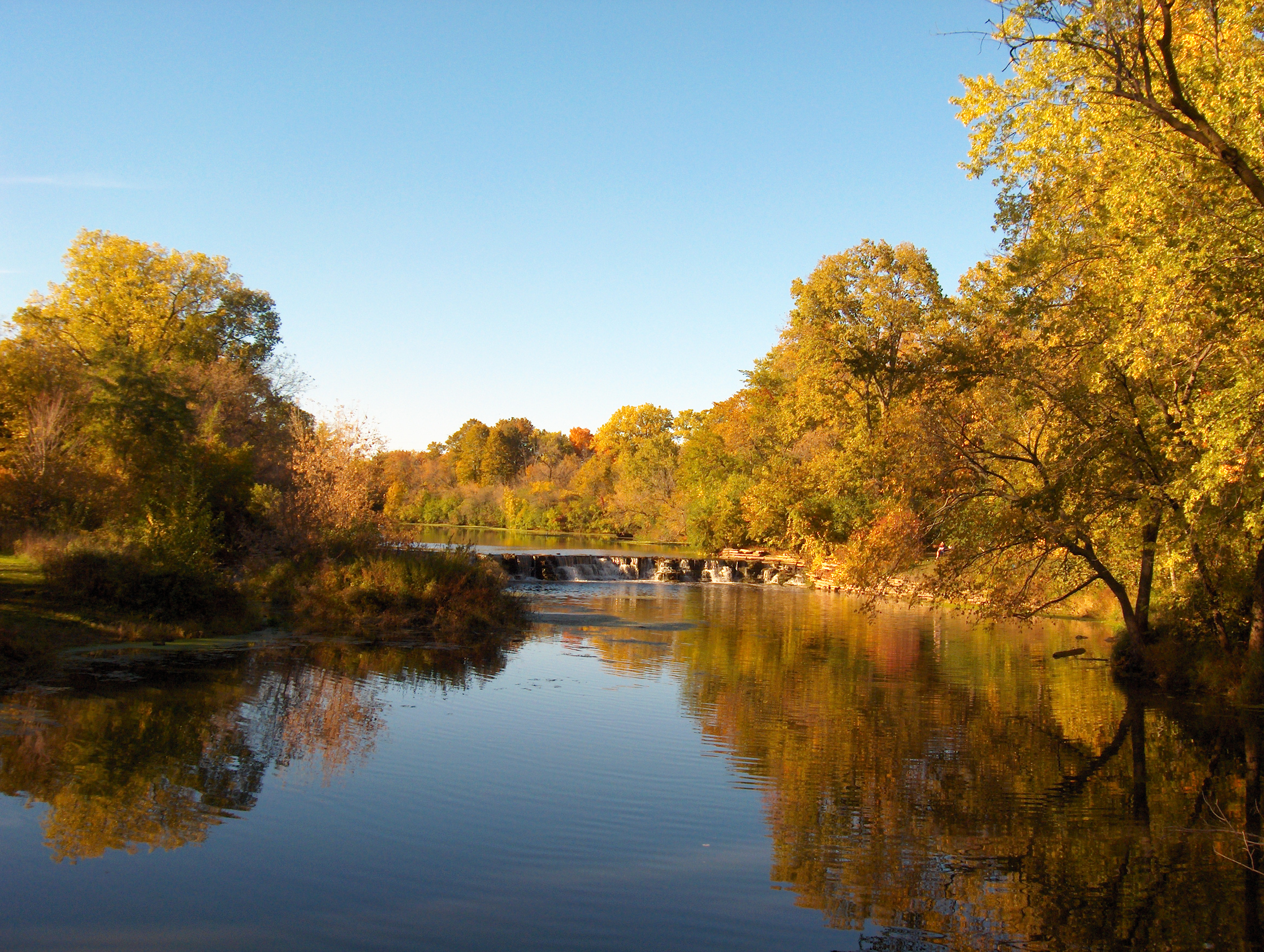 I took this photo at Warrenville Grove Forest Preserve in October, 2005